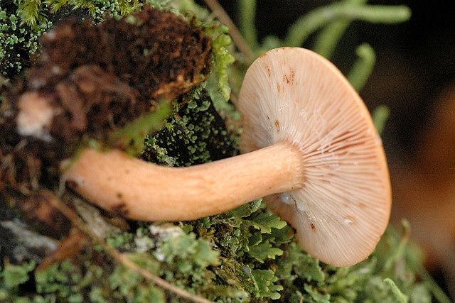 Lactarius spec. from Commanster, Belgium. The determination of the species shown in this picture has been verified.